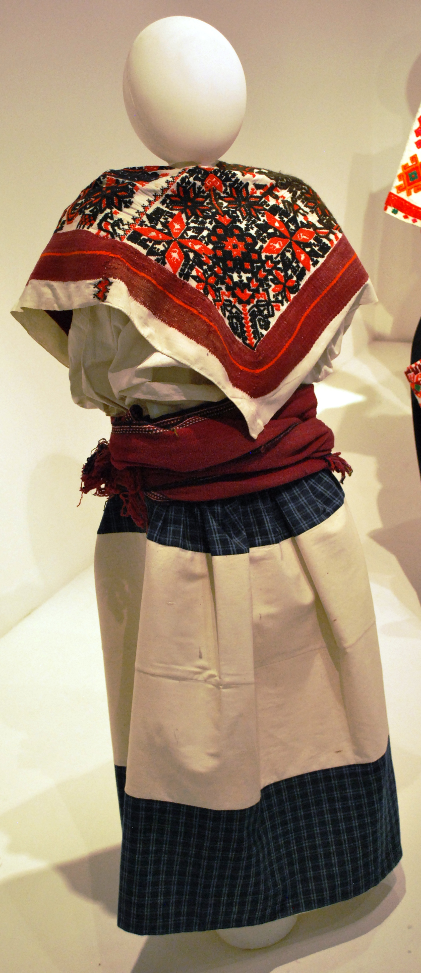 Traditional Mixtec woman's outfit on display at the Museum of Artes Populares in Mexico City